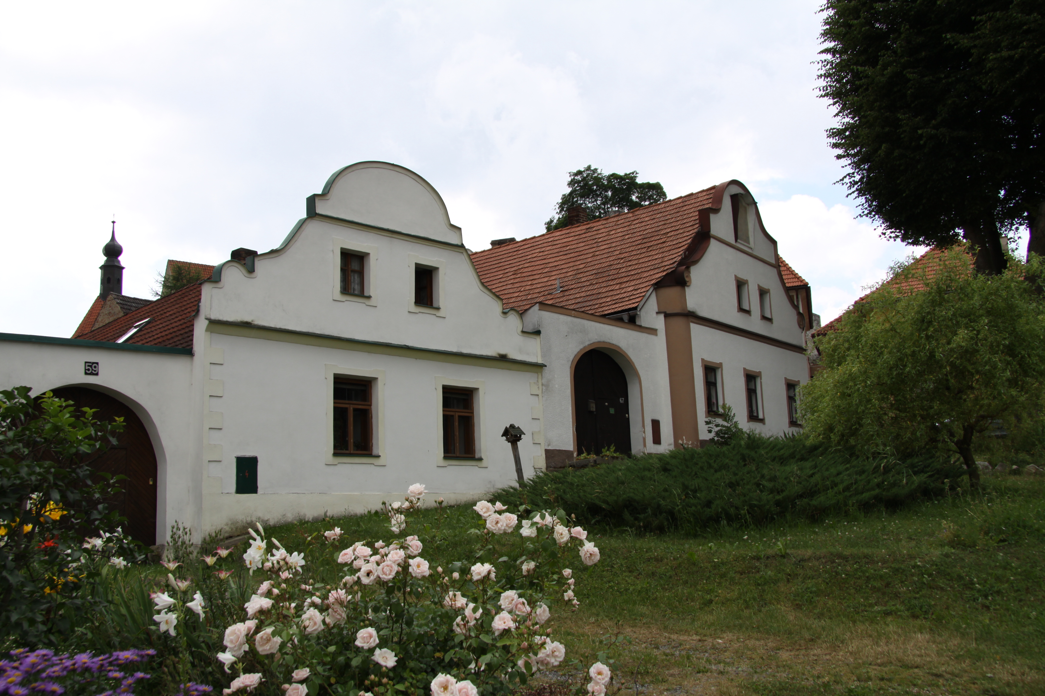 Rabí village in Klatovy District, Czech Republic